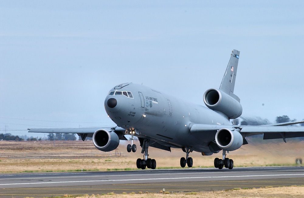 AFRC aircraft of the 60th Air Mobility Wing and 349th Air Mobility Wing KC-10A operations at Travis AFB, Calif (U.S. Air Force photo by Airman 1st Class Meghan Geis)